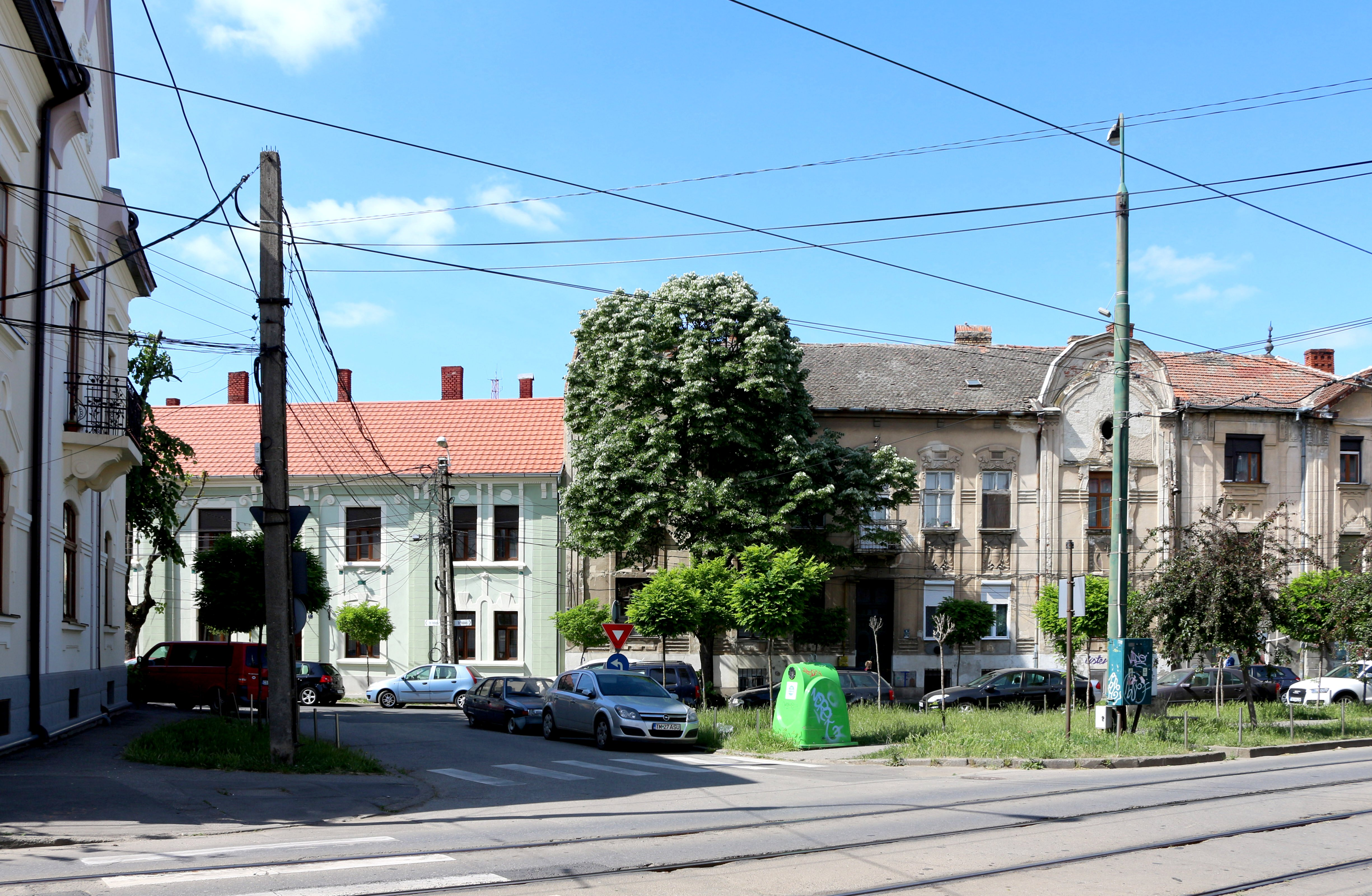 Urban ensemble VI, Timișoara, Romania